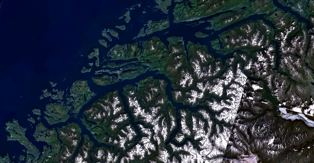 Satellite imagery of three large fjords: From top to bottom Romsdalsfjorden, the fjord system of Sunnmøre, and Nordfjord.